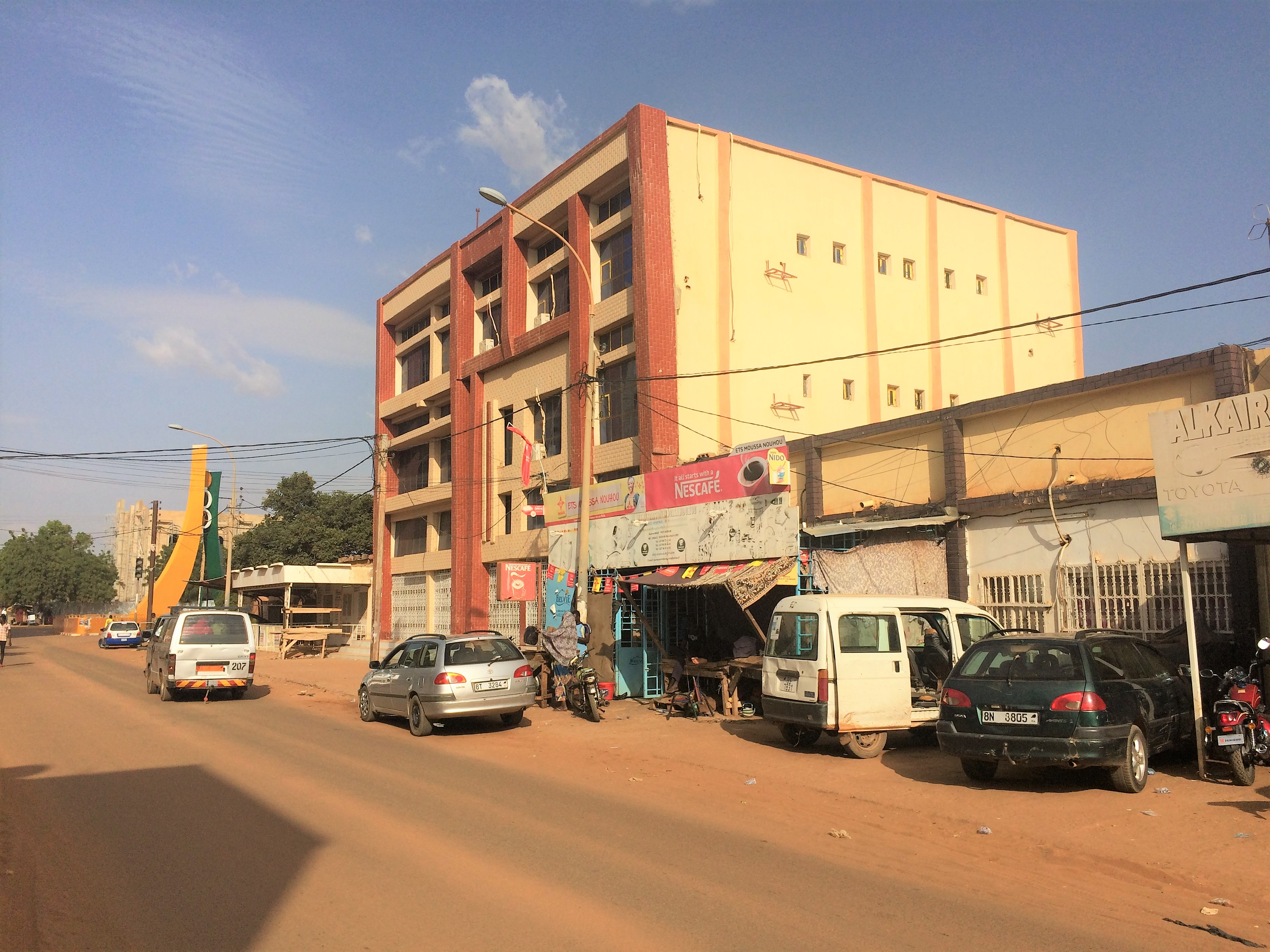 The Rue du Maroc (Morocco Street, Rue ST-23) in the 'Stade' neighborhood in Niamey, Niger.